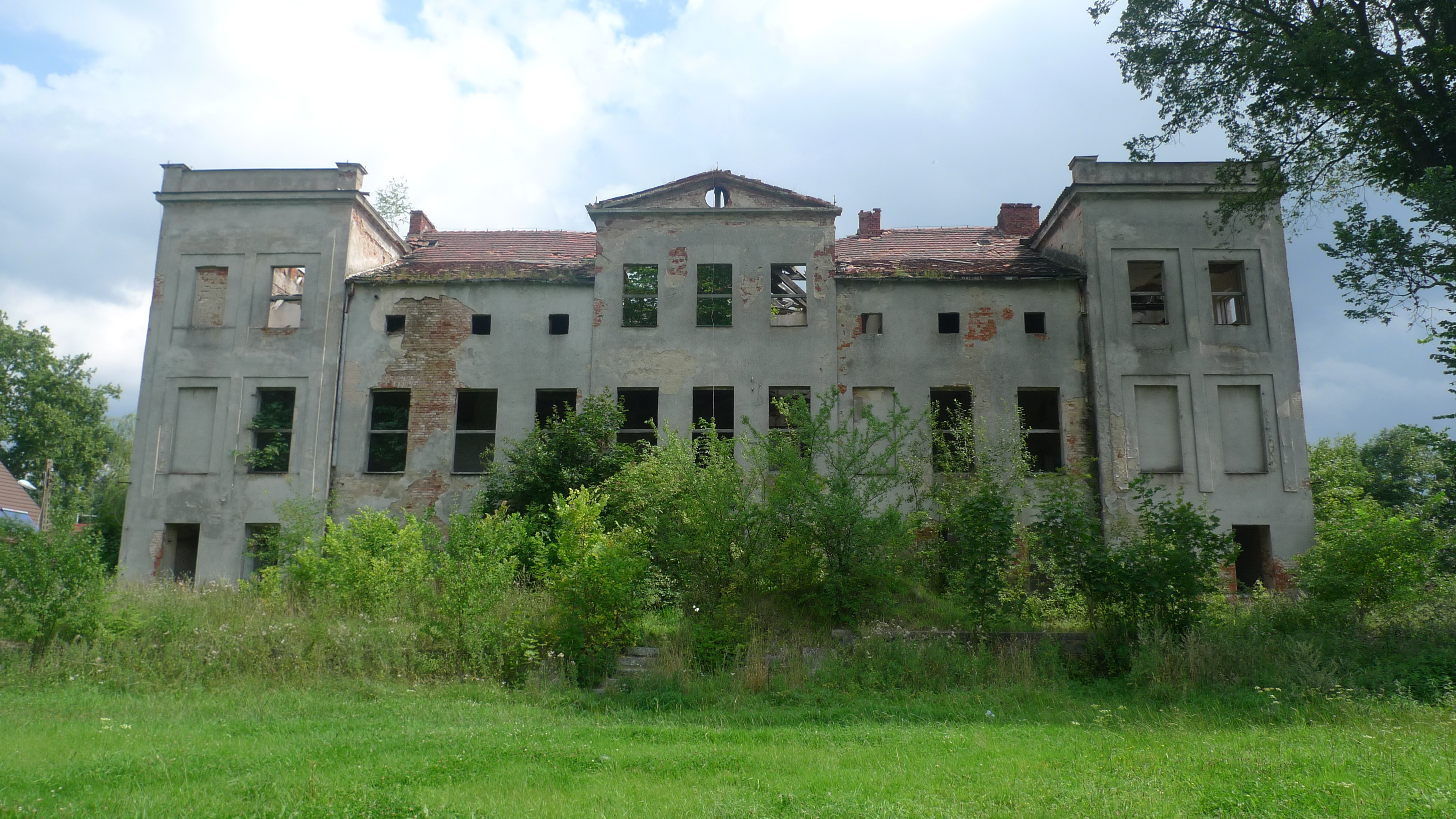 Palace in Warnice